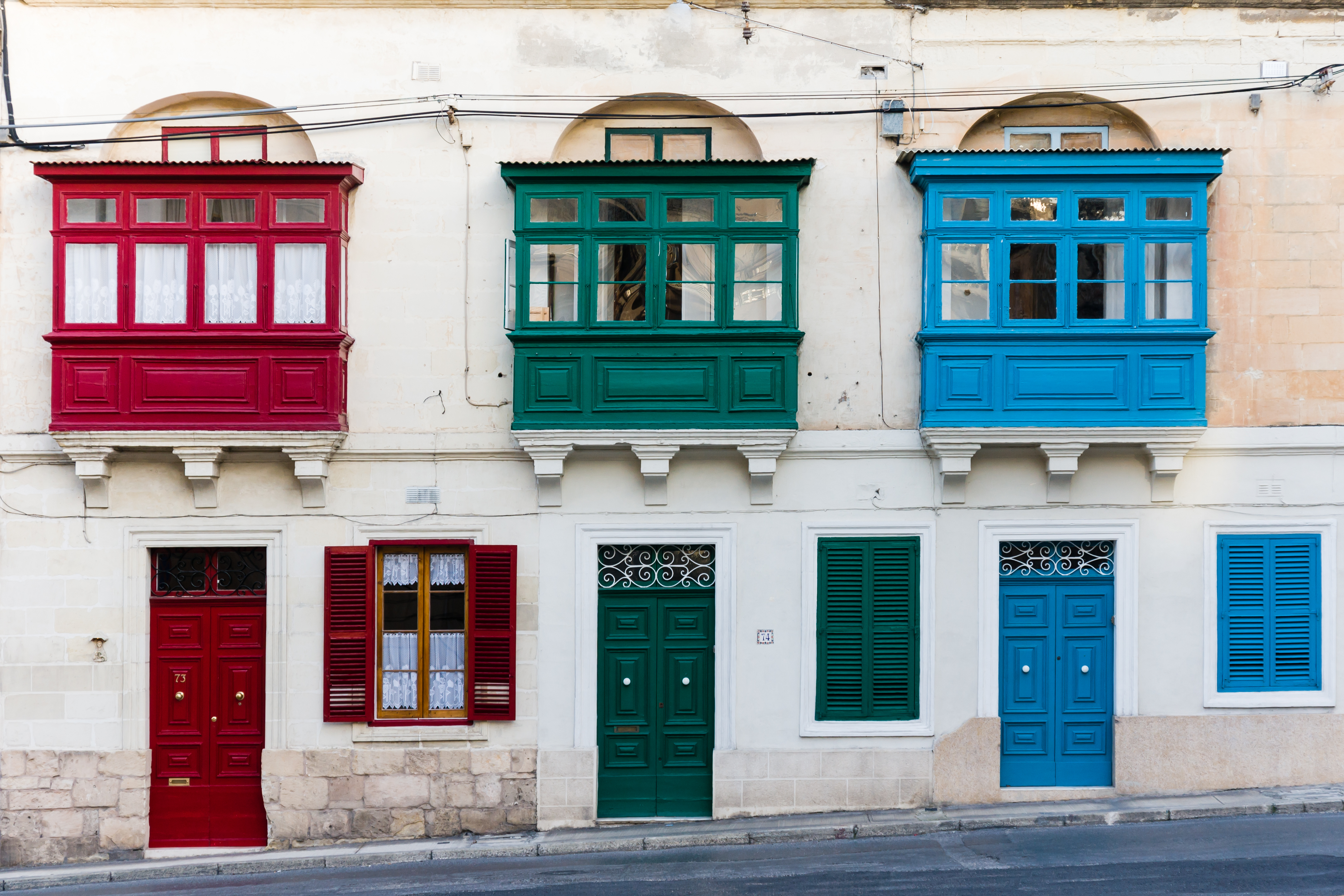 Sliema, Malta: The colored balconies of Sliema.